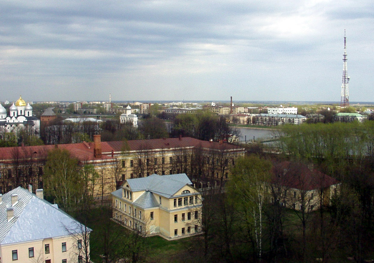 Velikiy Novgorod general city view from Kokuj tower of the Kremlin.